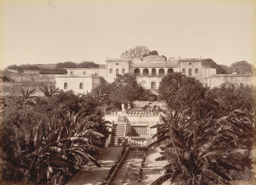 Palace of Zeb-un-Nissa (Aurangazeb's daughter), Aurangabad.